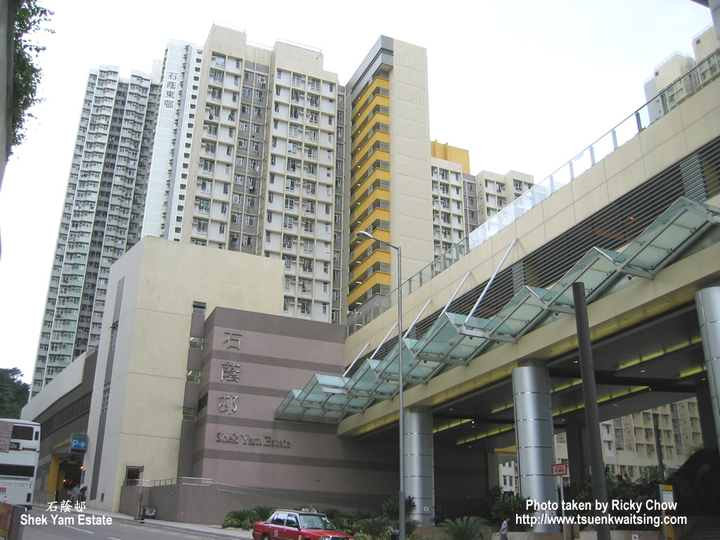 Shek Yam Estate, Kwai Chung, New Territories, Hong Kong